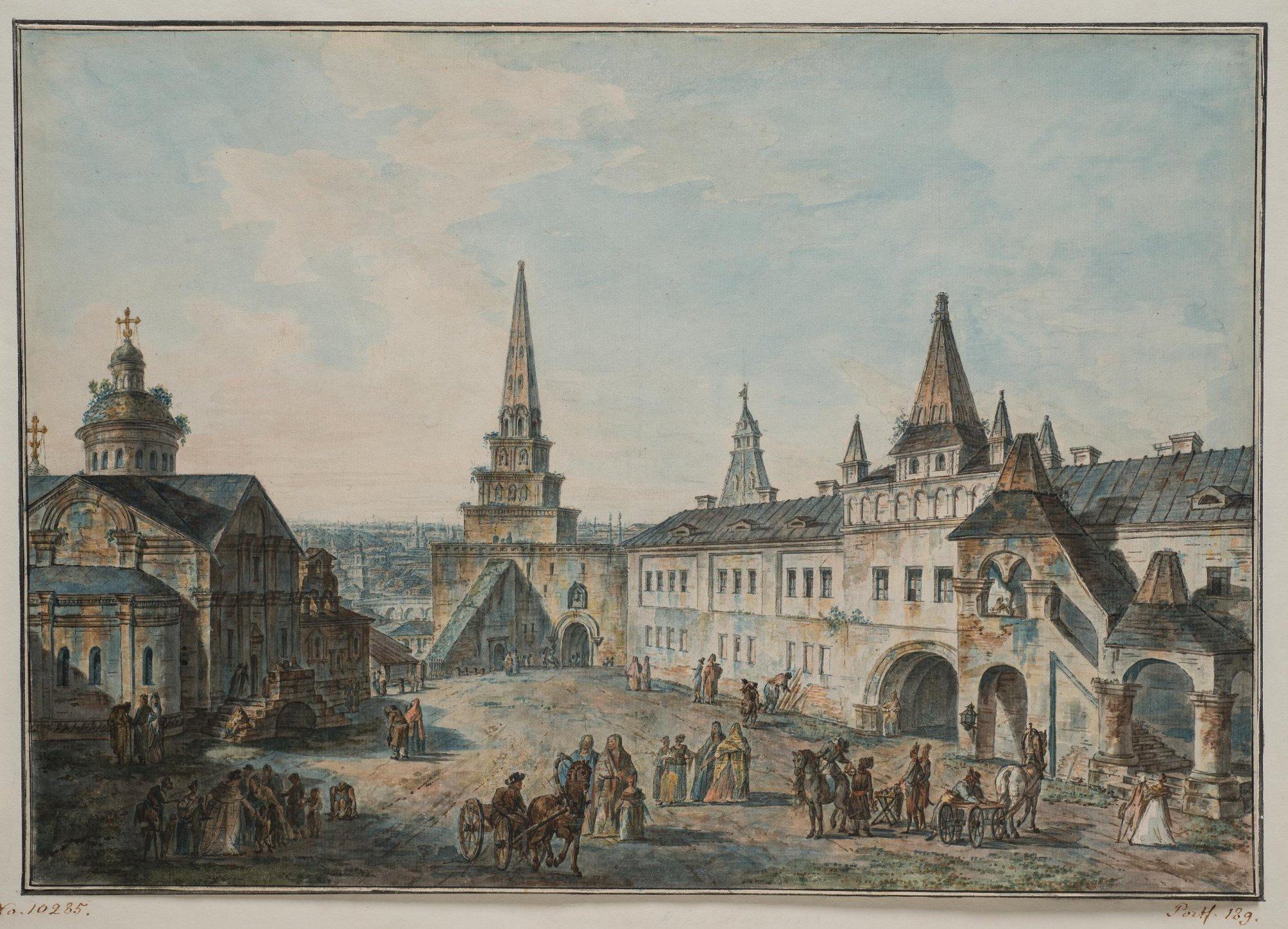 en: Fedor Alekseev Title